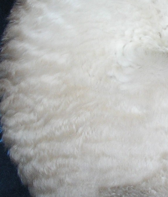 curly coat Cornish Rex